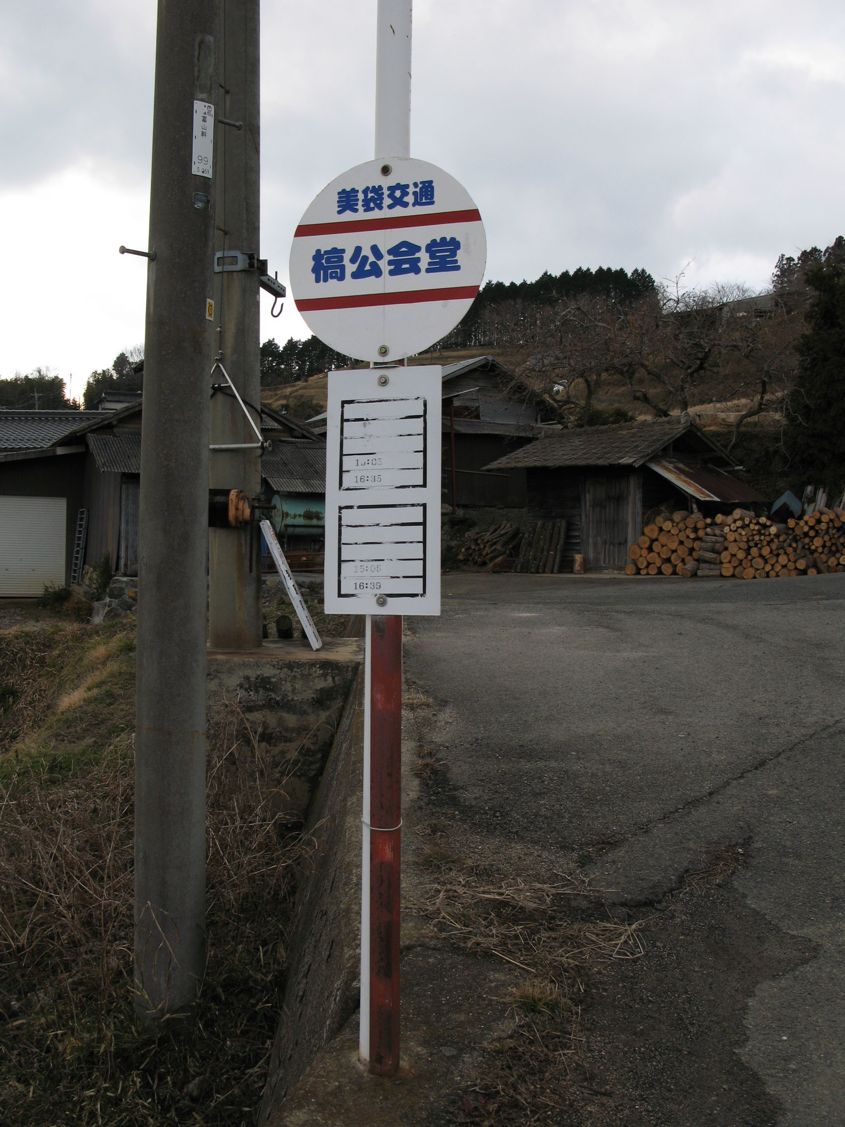 Minagi Kotsu Keyaki-kokaido (Keyaki Public Hall) Bus Stop in Soja City, Okayama Prefecture, Japan